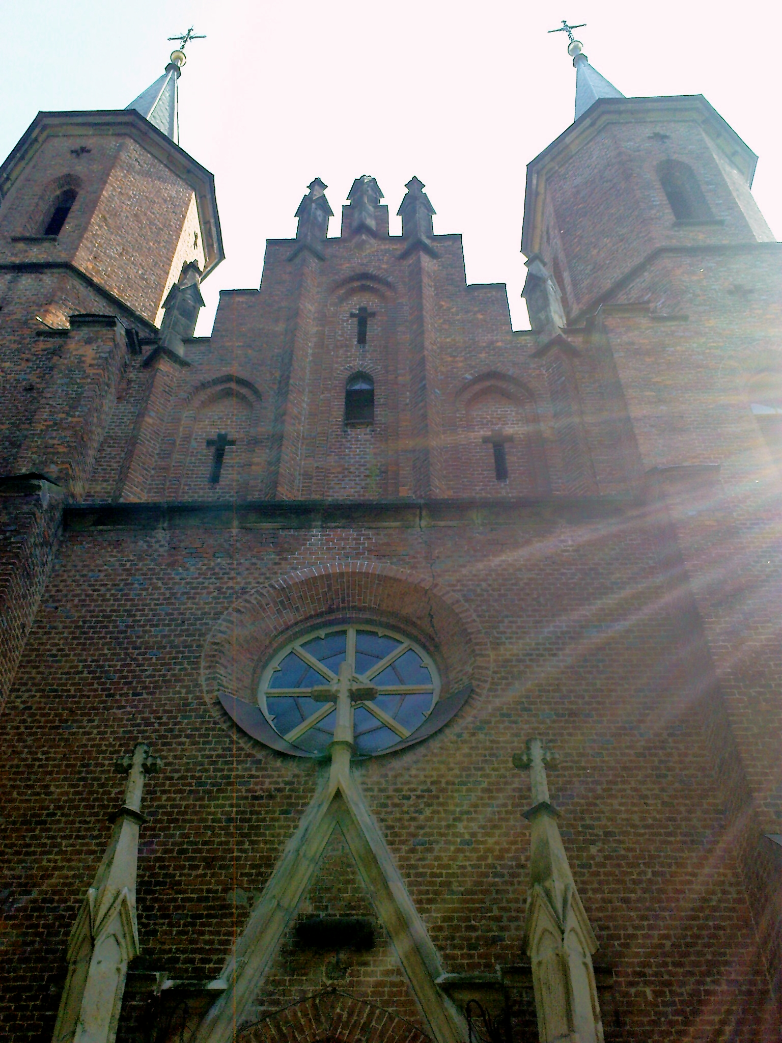 Parish Church of St. Martin the Bishop in Łużna